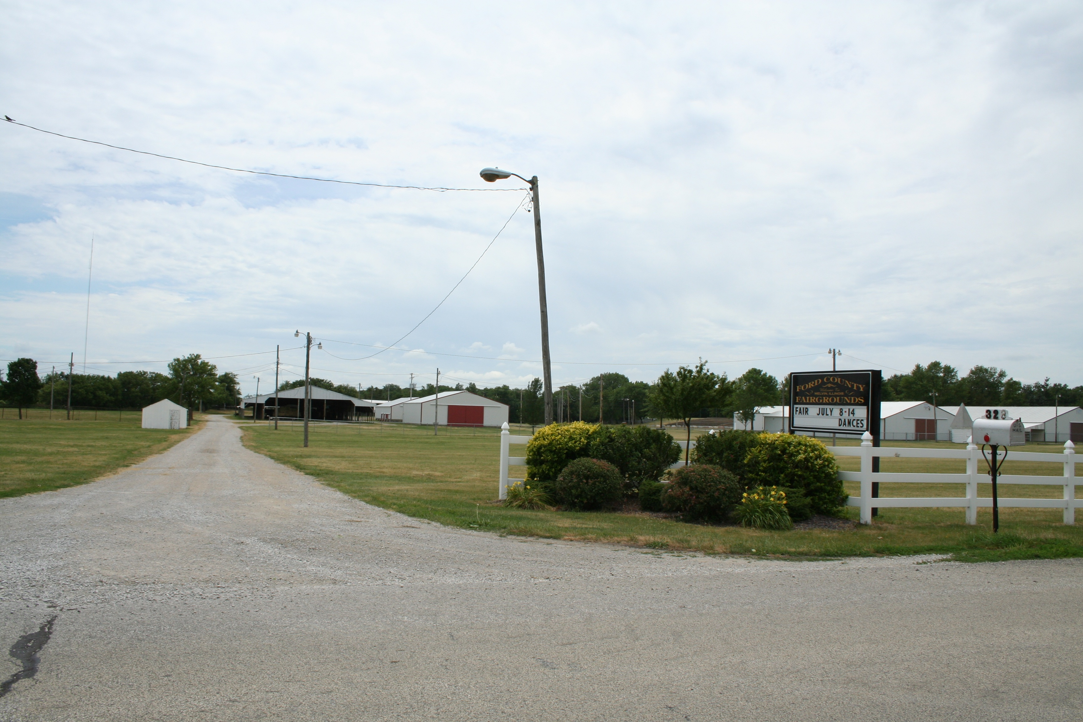 Ford_County_Illinois_Fairgrounds